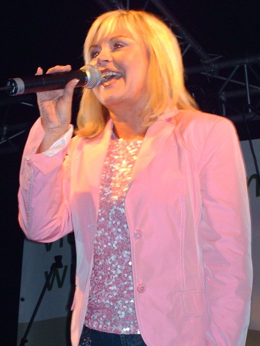 Gaby Baginsky at Lennestadt's 2006 Stadtfest, Lennestadt, Germany check usage